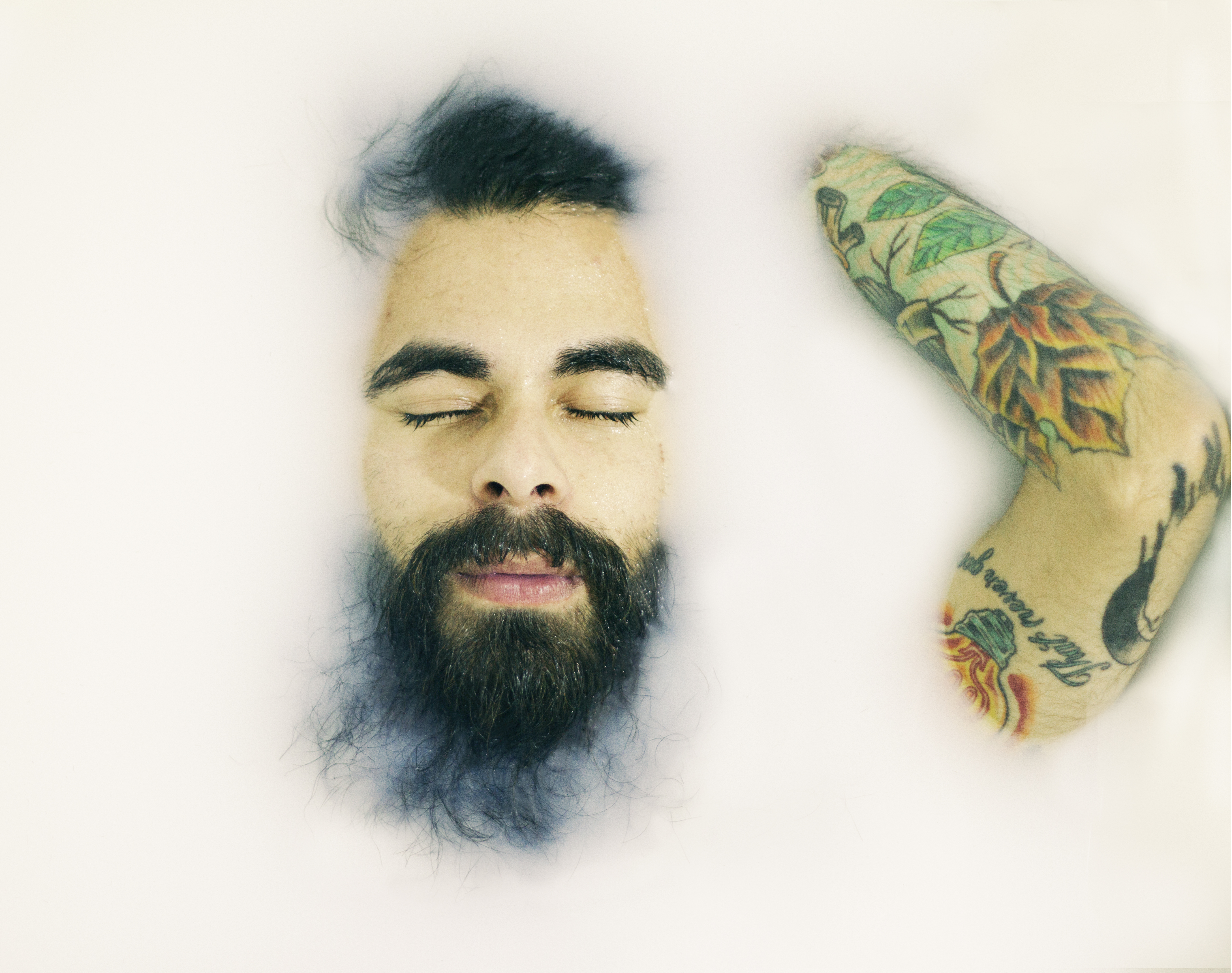 Aurora, United States